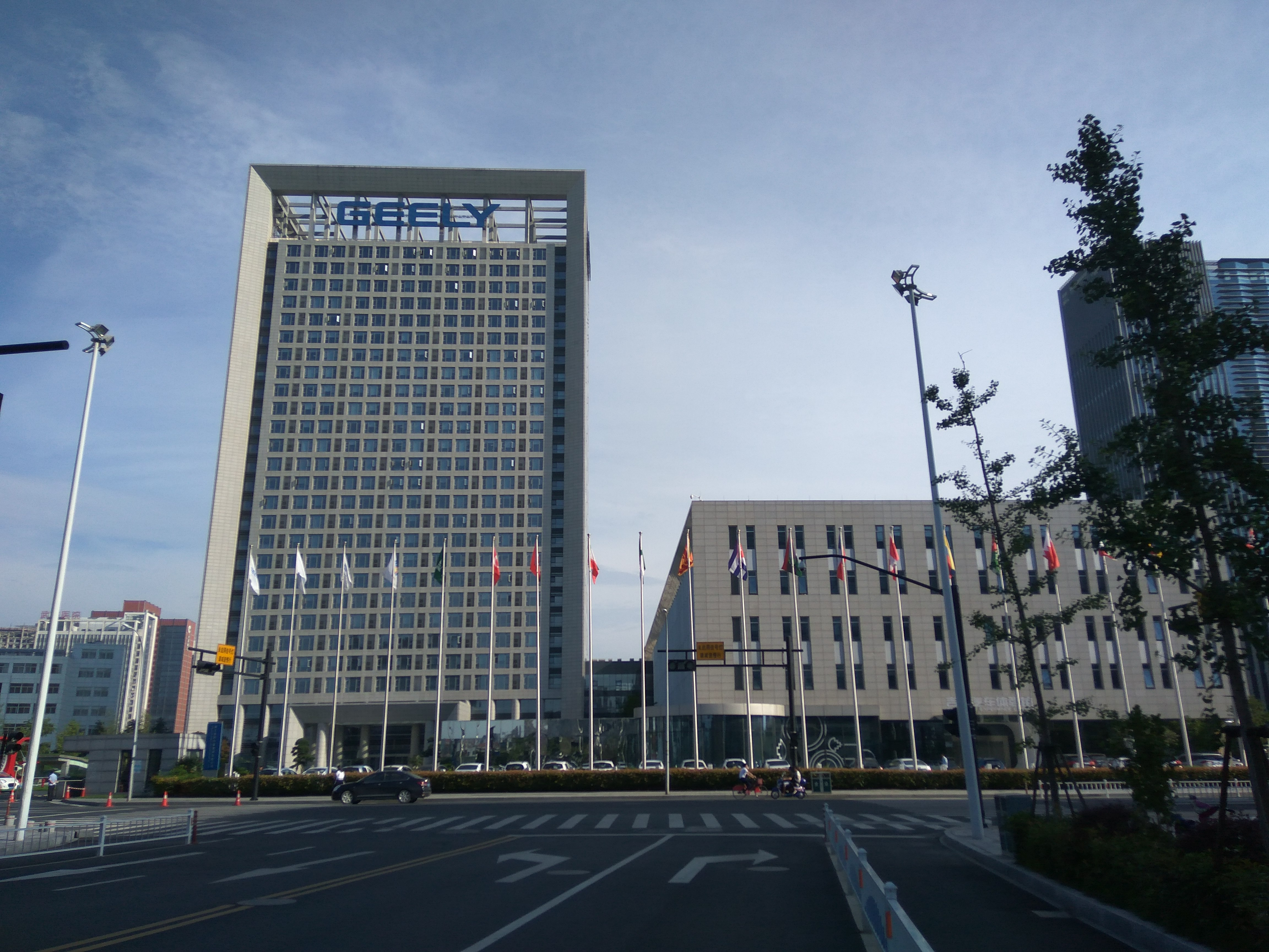 201607 Geely Corp